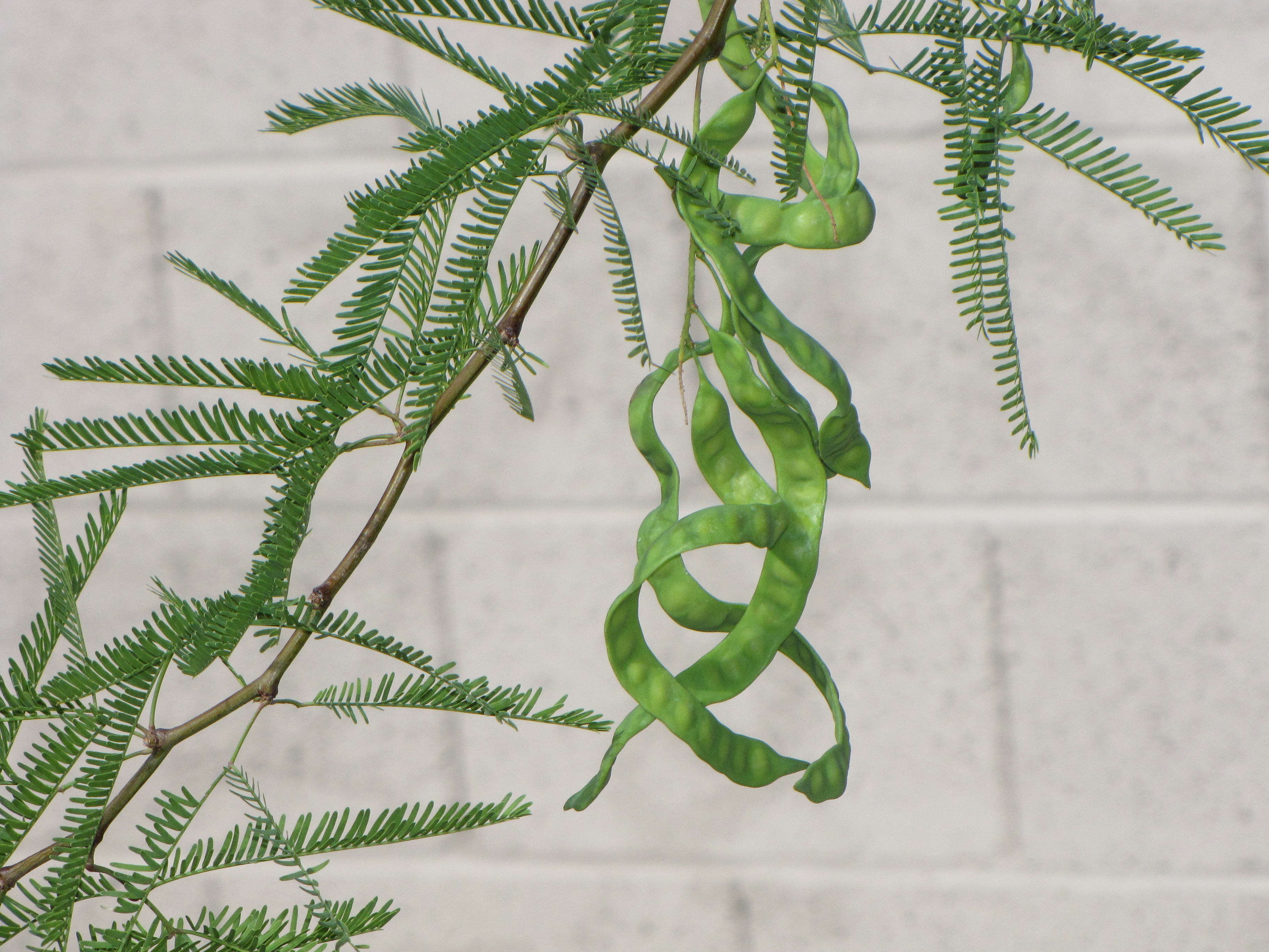 Mesquite legumes (seed pockets).